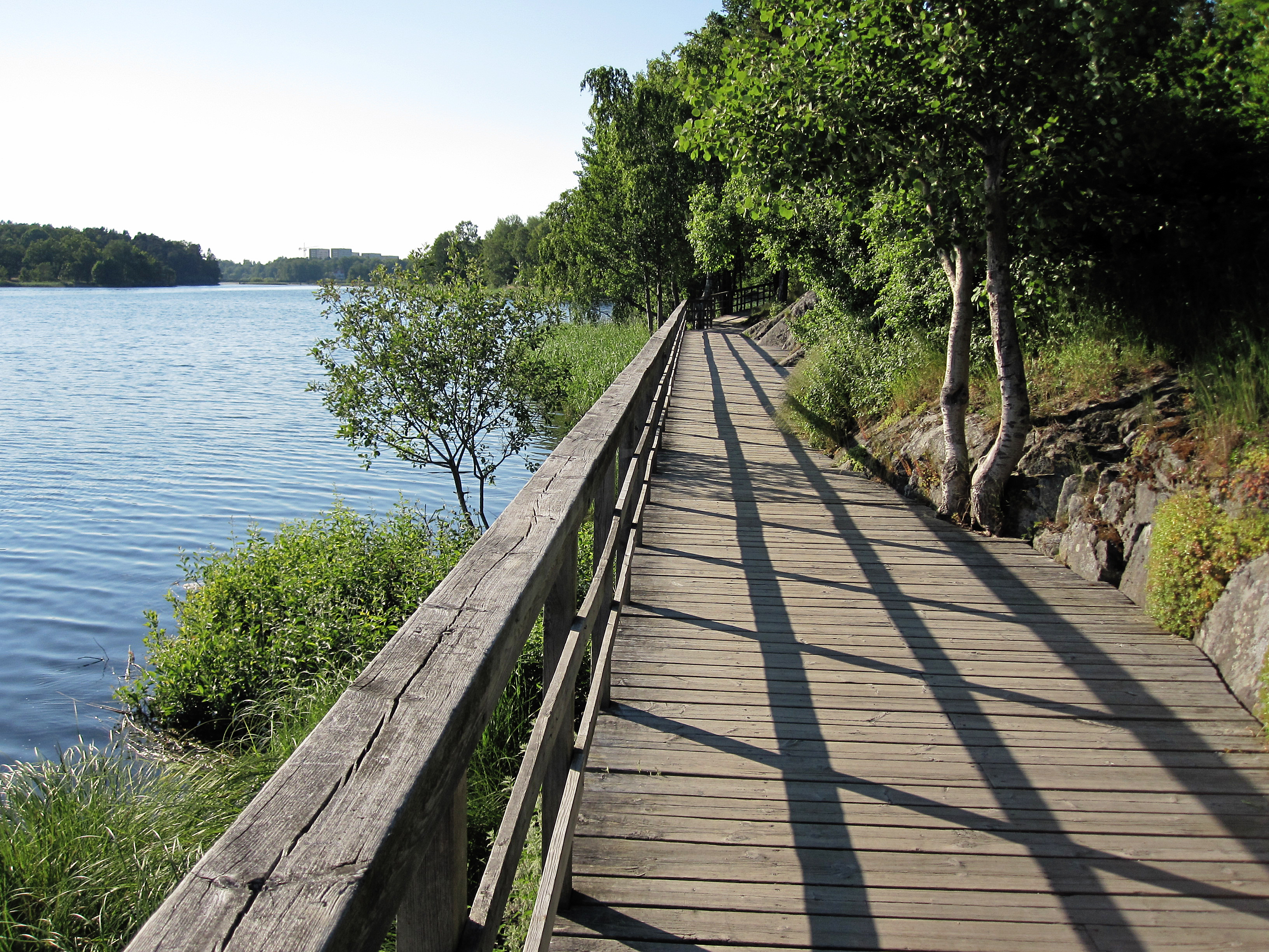 Lake Magelungen, Stockholm, Sweden. Board walk, just west from the bridge Ågestabron.